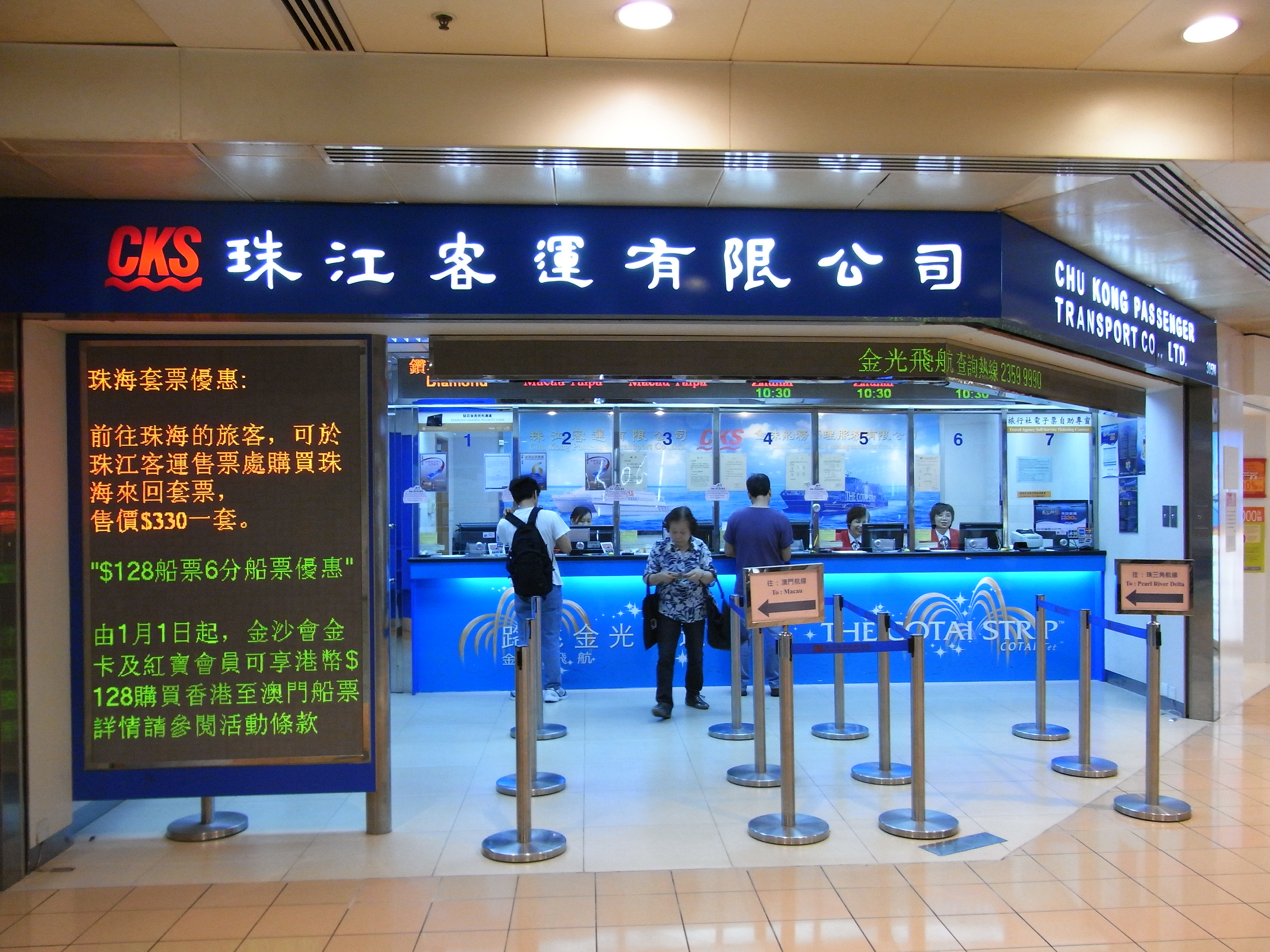 Chu Kong Services, shop of Shun Tak Centre, Sheung Wan, HK